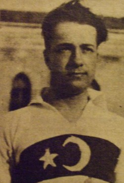 Bedri Gürsoy, Turkish former footballer who played in Fenerbahçe throughout his whole career.